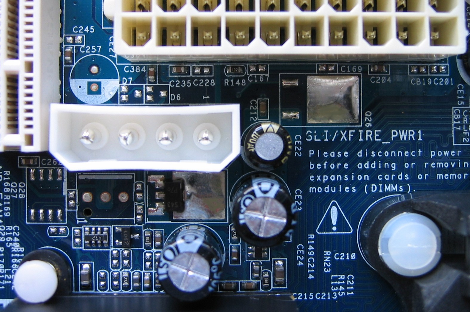 US-Patent 6827589 B2: „Motherboard with a 4-pin ATX power male connector“ by AsusTek